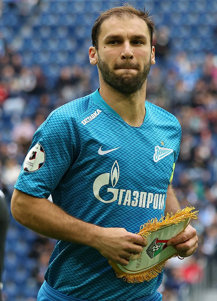 Branislav Ivanović